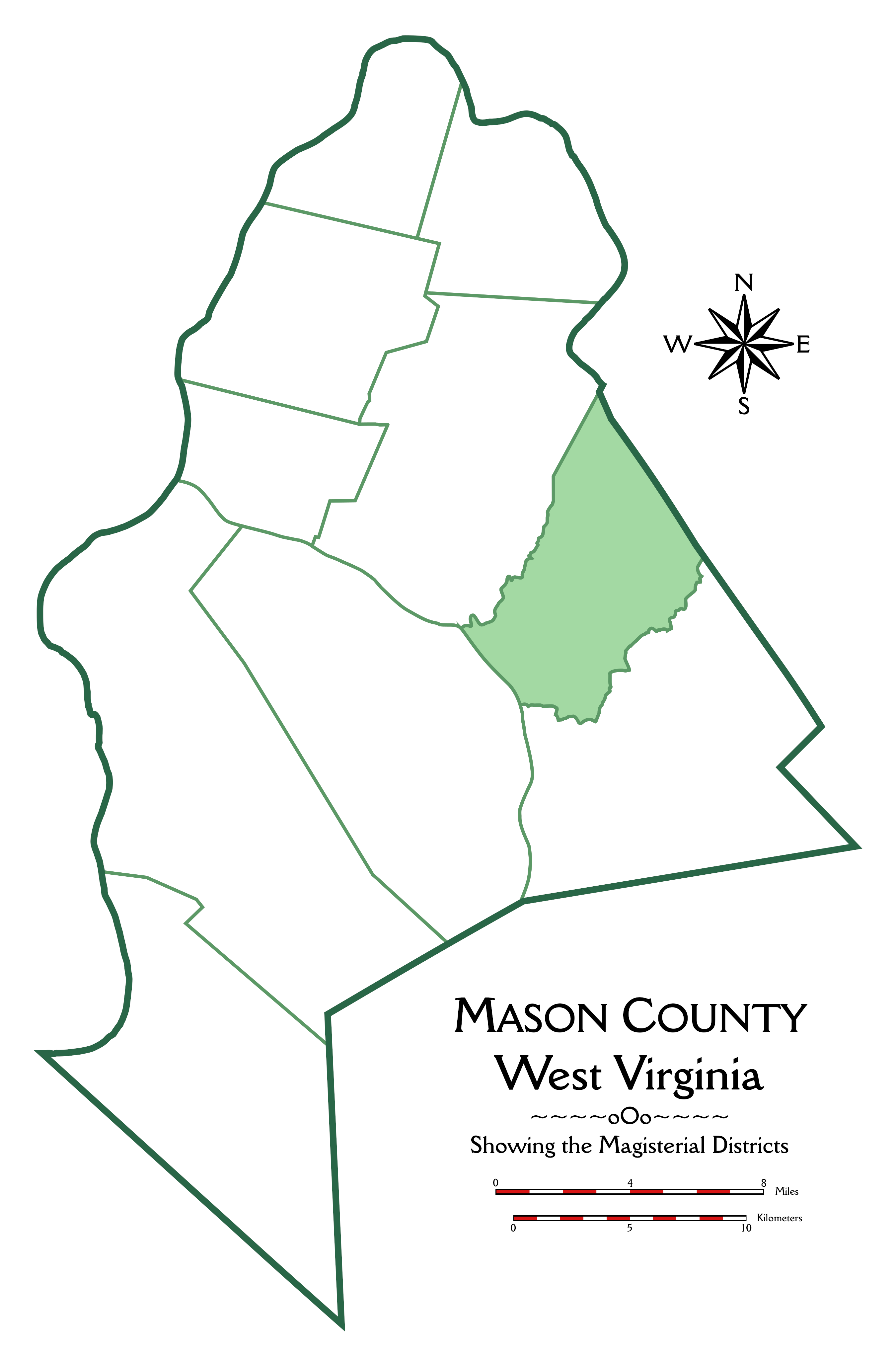 This is an outline map of Mason County, West Virginia, showing the boundaries of the magisterial districts. Cologne District is highlighted.